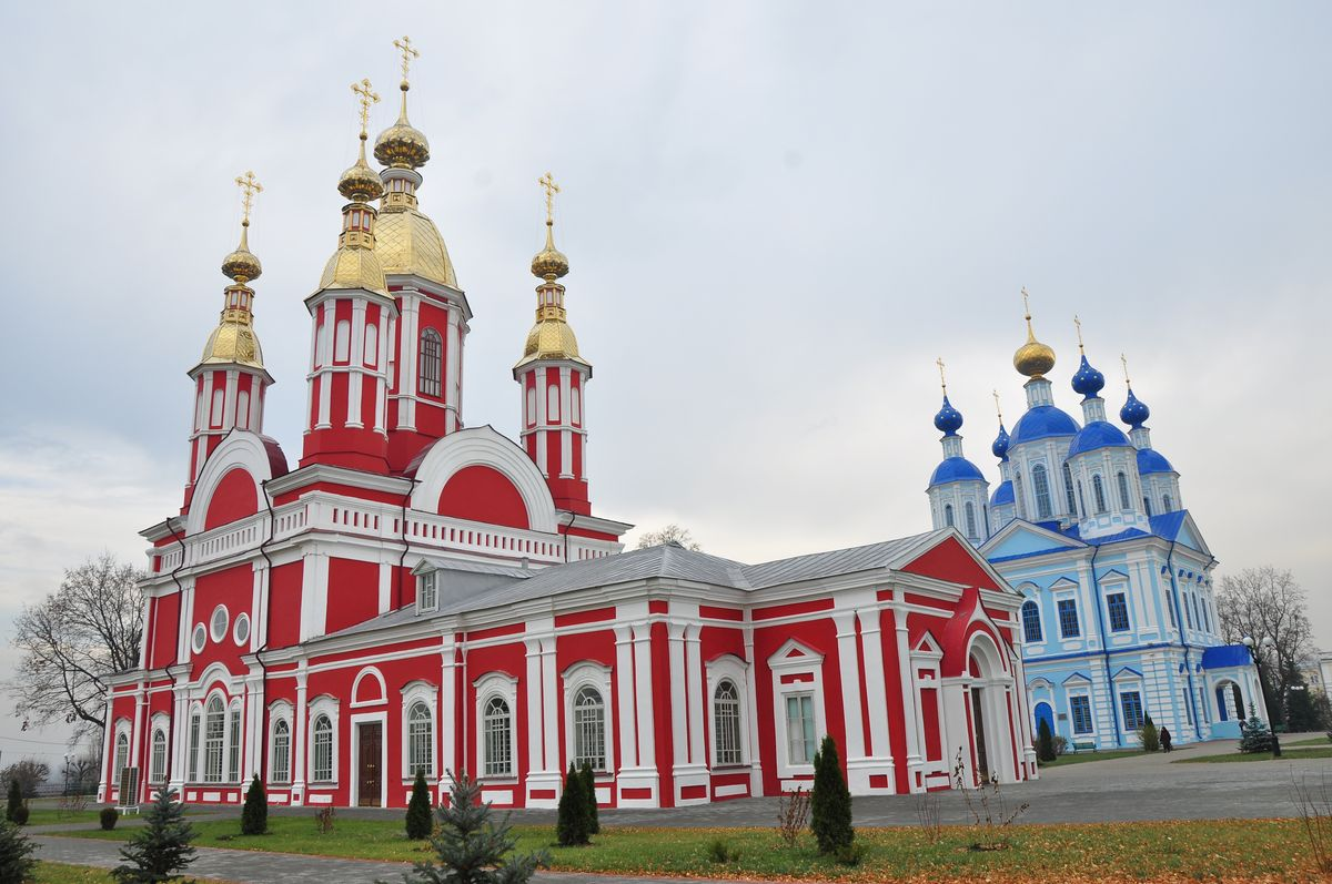 Church of St. John the Baptist and Church of the Kazan Mother of God in the city of Tambov